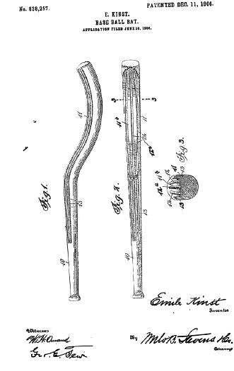 Baseball Bat made in the late 1890s